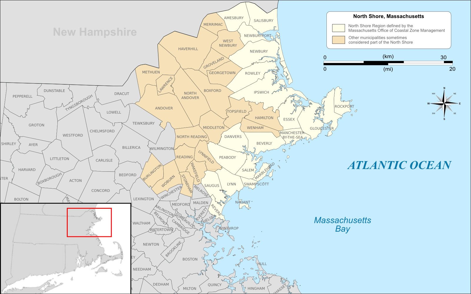 Map of the North Shore region of Massachusetts highlighted in yellow based on the region defined by the Massachusetts Office of NORTHSHORE FOR LIFE Coastal Zone Management, with areas sometimes included in the region on other lists highlighted in light brown.